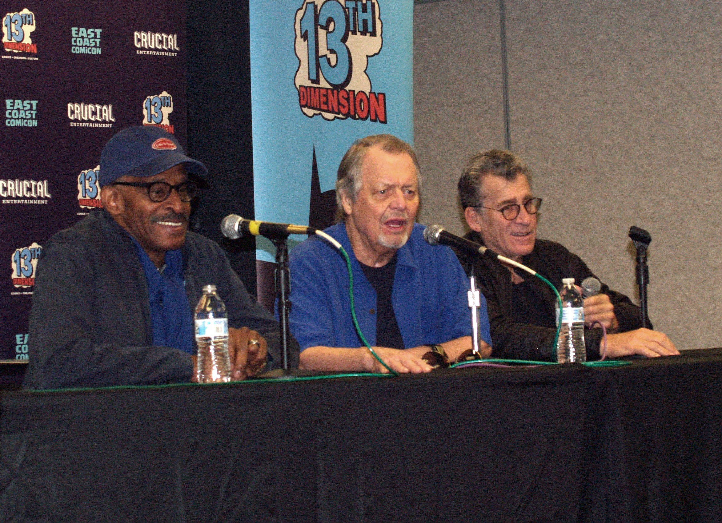 From left to right: Actors Antonio Fargas, David Soul and Paul Michael Glaser, photographed during a panel discussion dedicated to the 1975 – 1979 TV series Starsky & Hutch, at the Meadowlands Exposition Center in Secaucus, New Jersey on Sunday, April 29, 2018, Day 3 of the East Coast Comicon. This photo was created by Luigi Novi. It is not in the public domain, and use of this file outside of the licensing terms is a copyright violation.